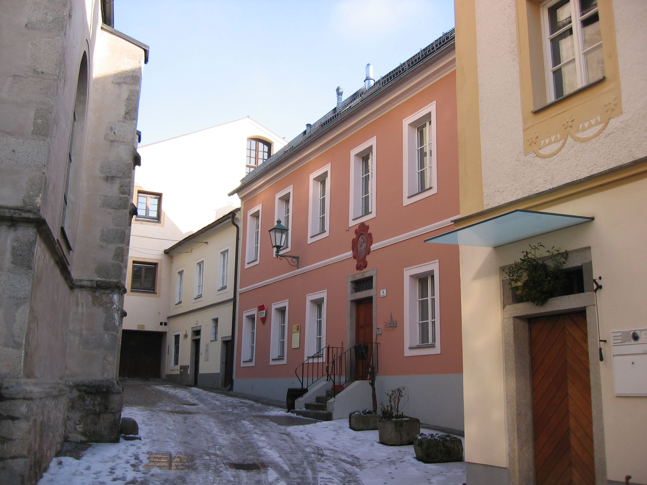 Schulgasse in Freistadt